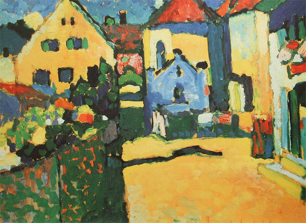 Grungasse In Murnau, oil on cardboard 33х44,6 sm, Städtische Galerie im Lenbachhaus und Kunstbau, München, Germany.